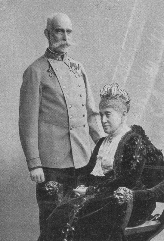 Archduke Rainer Ferdinand (1827–1913), the younger, son of Archduke Rainer of Austria, with his wife Marie Carolina Luise Christina (1825–1915).